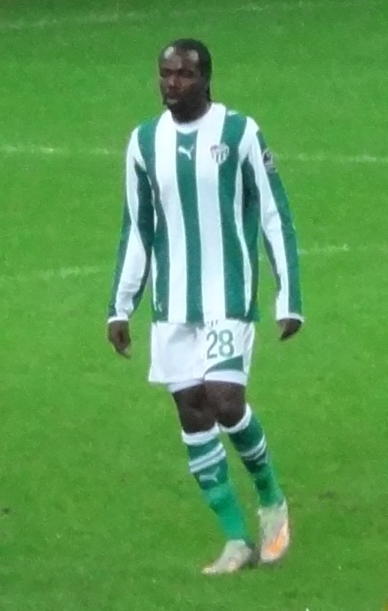 tagoe vs galatasaray